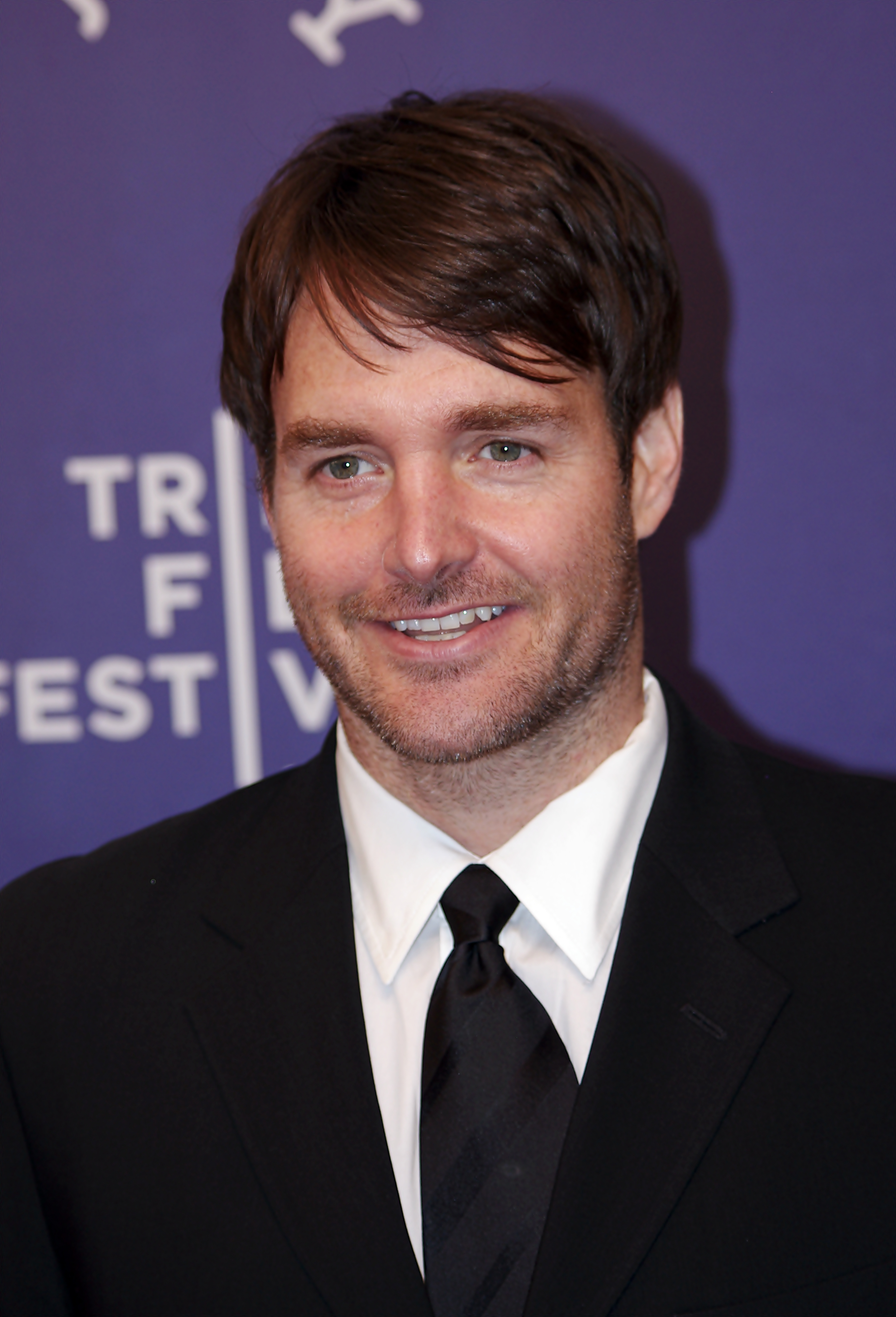 Will Forte at the 2011 Tribeca Film Festival premiere of A Good Old Fashioned Orgy.